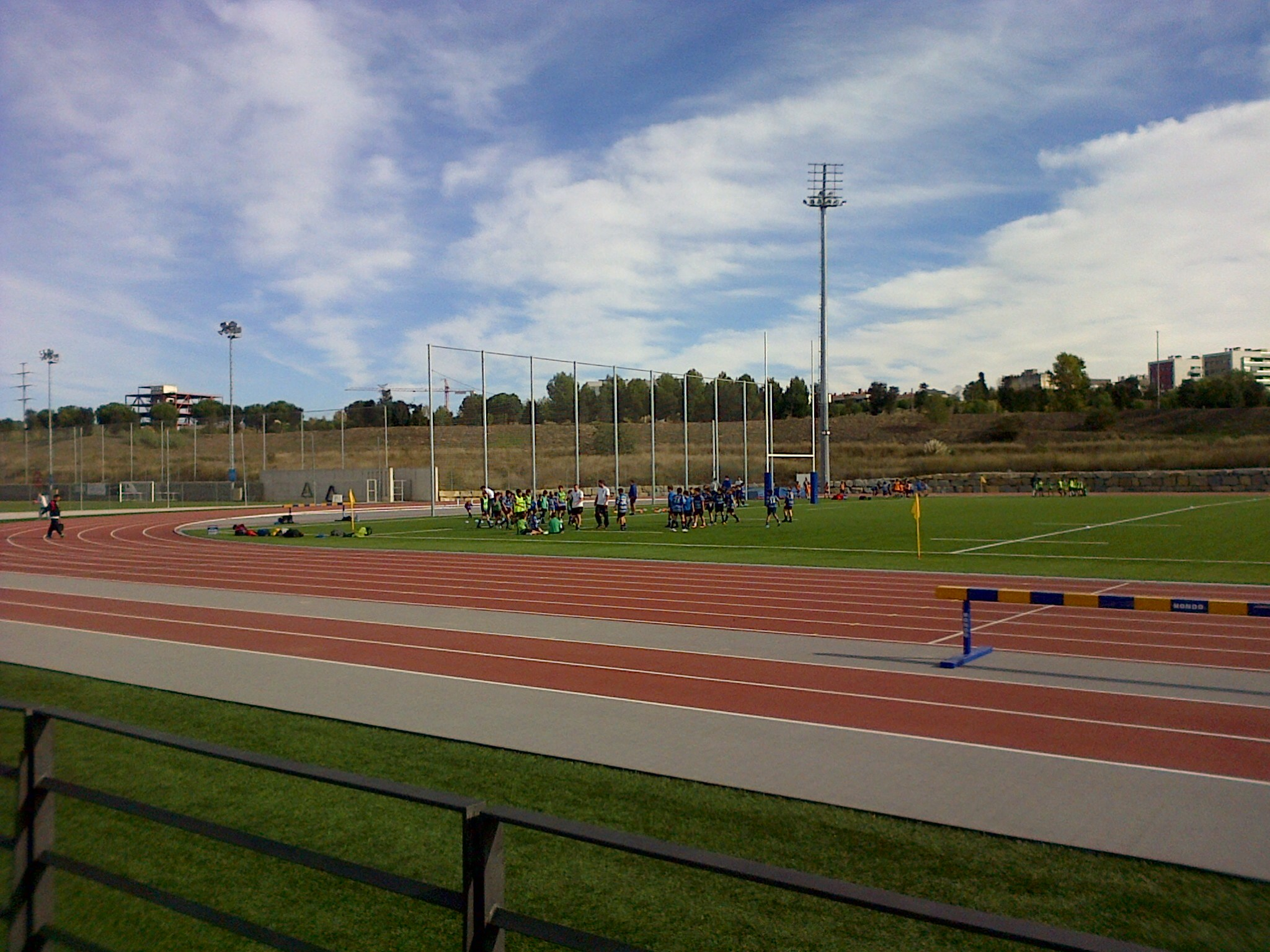 Municipal sports area «la Guinardera», at Sant Cugat del Vallès